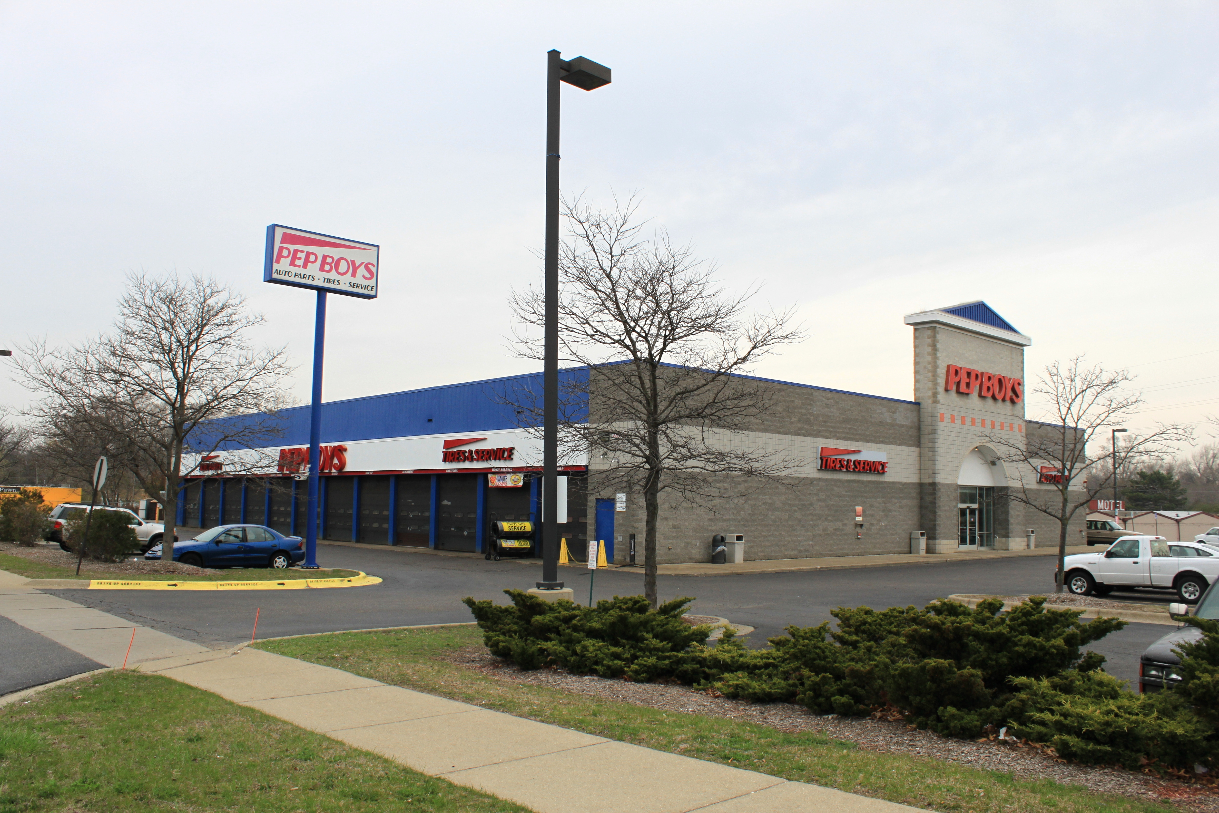 Pep Boys store, 28210 8 Mile Road, Farmington Hills, Michigan